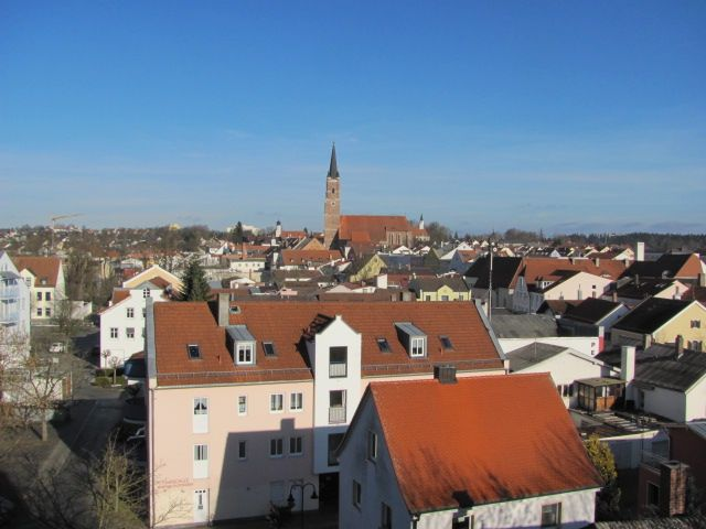 rc church of Eggenfelden upon the historic town